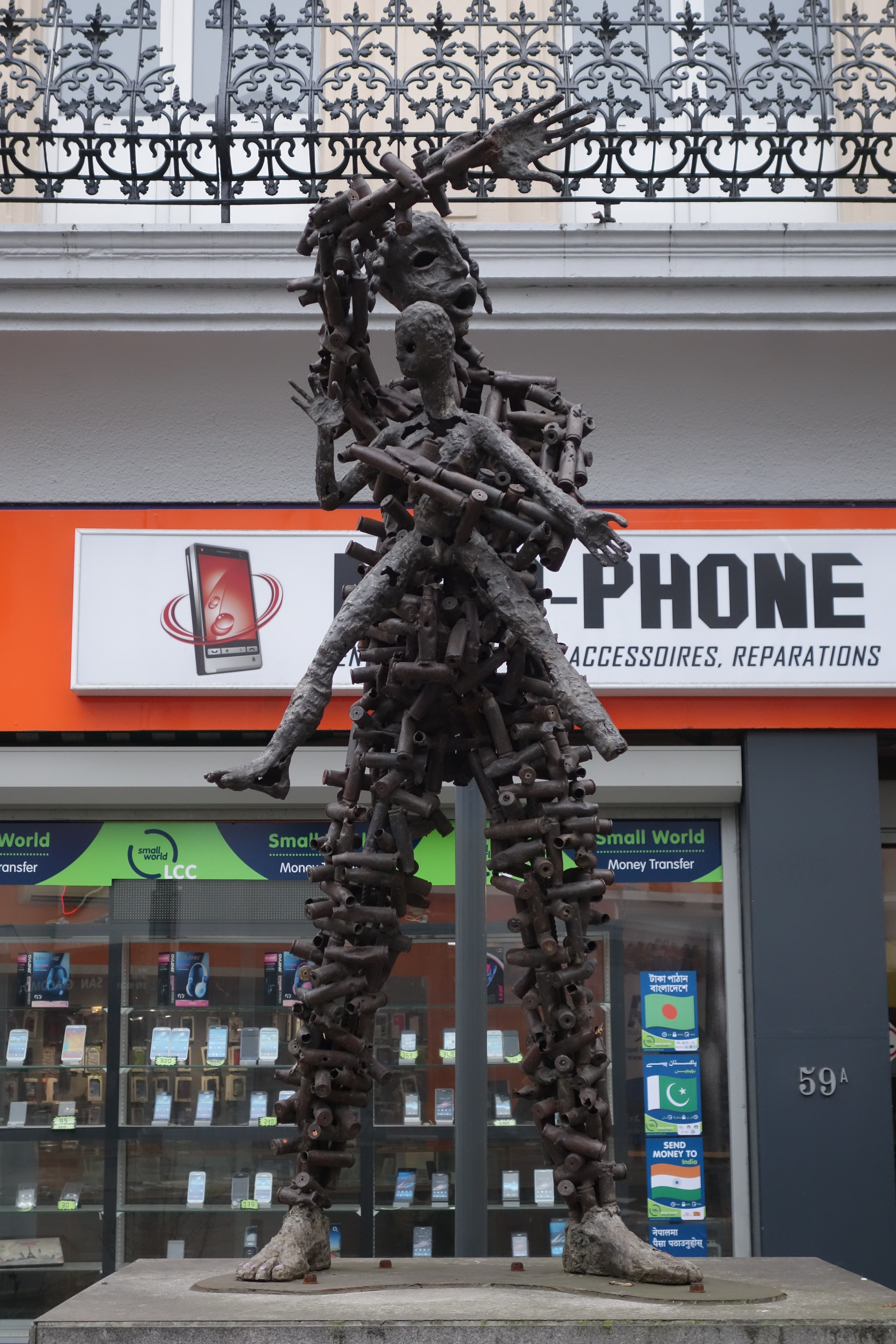 Au-delà de l'espoir or Après la vie, l'espoir, by Freddy Tsimba. Statue at rue Longue Vie/Chaussée de Wavre (Matonge, Ixelles)